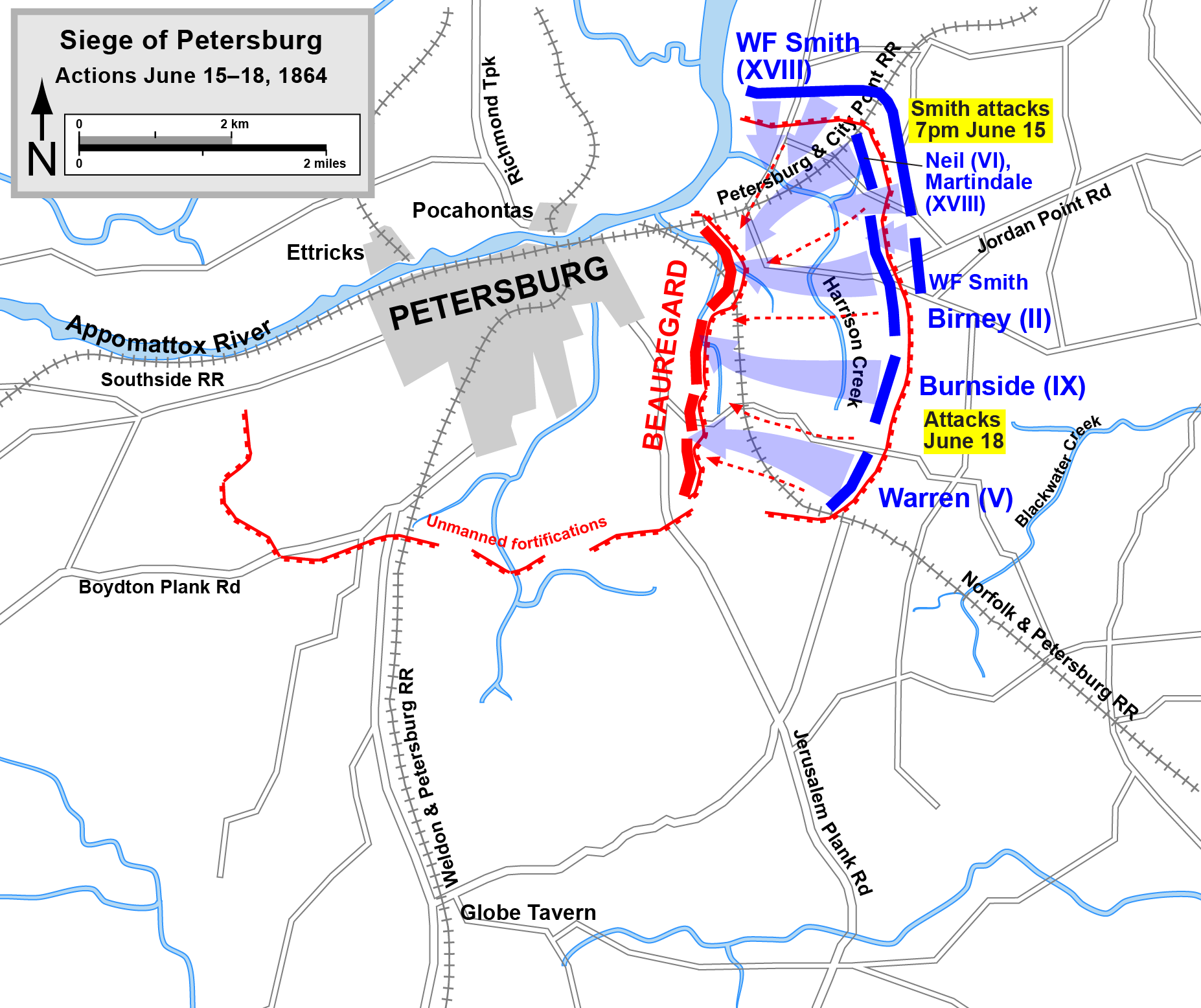 Map of the Siege of Petersburg of the American Civil War, assaults on June 15-16